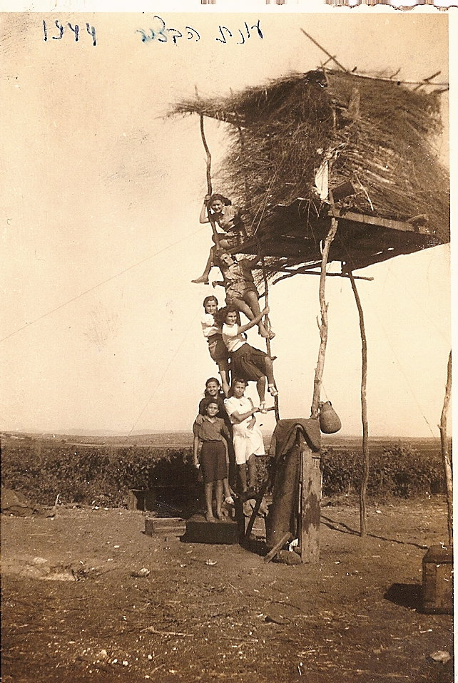 Agriculture in Israel